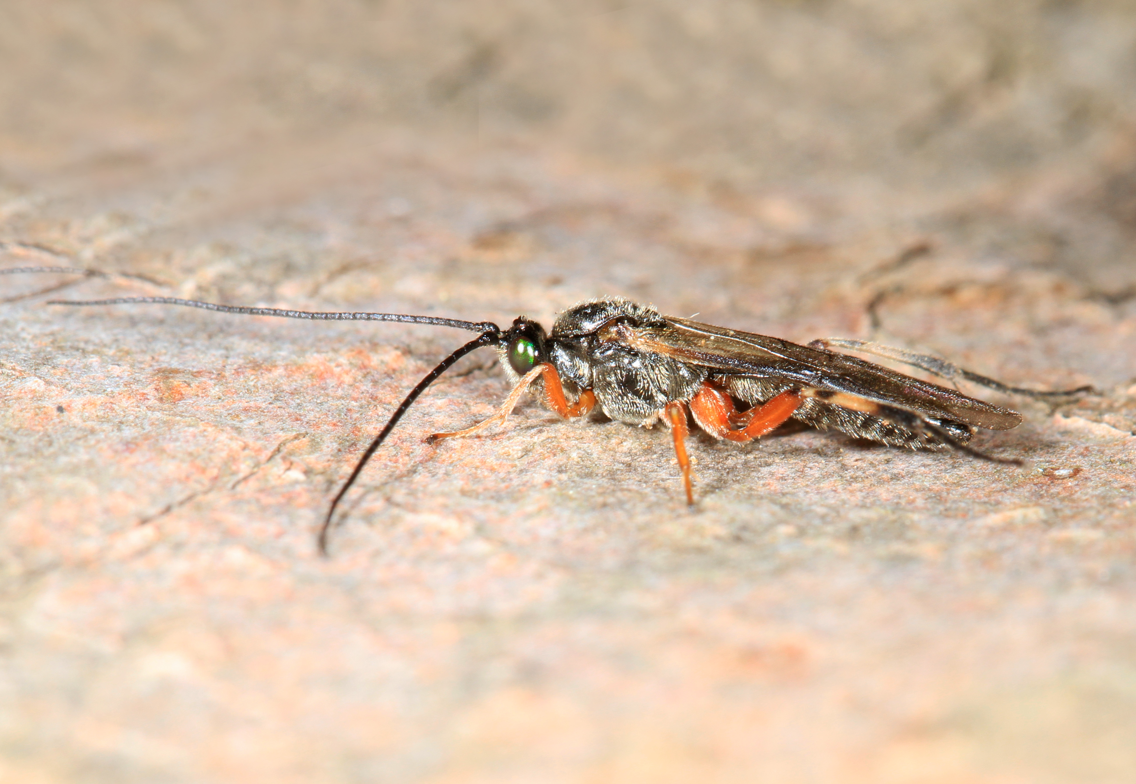 Braconid Wasp - Earinus limitaris, Meadowood Farm SRMA, Mason Neck, Virginia